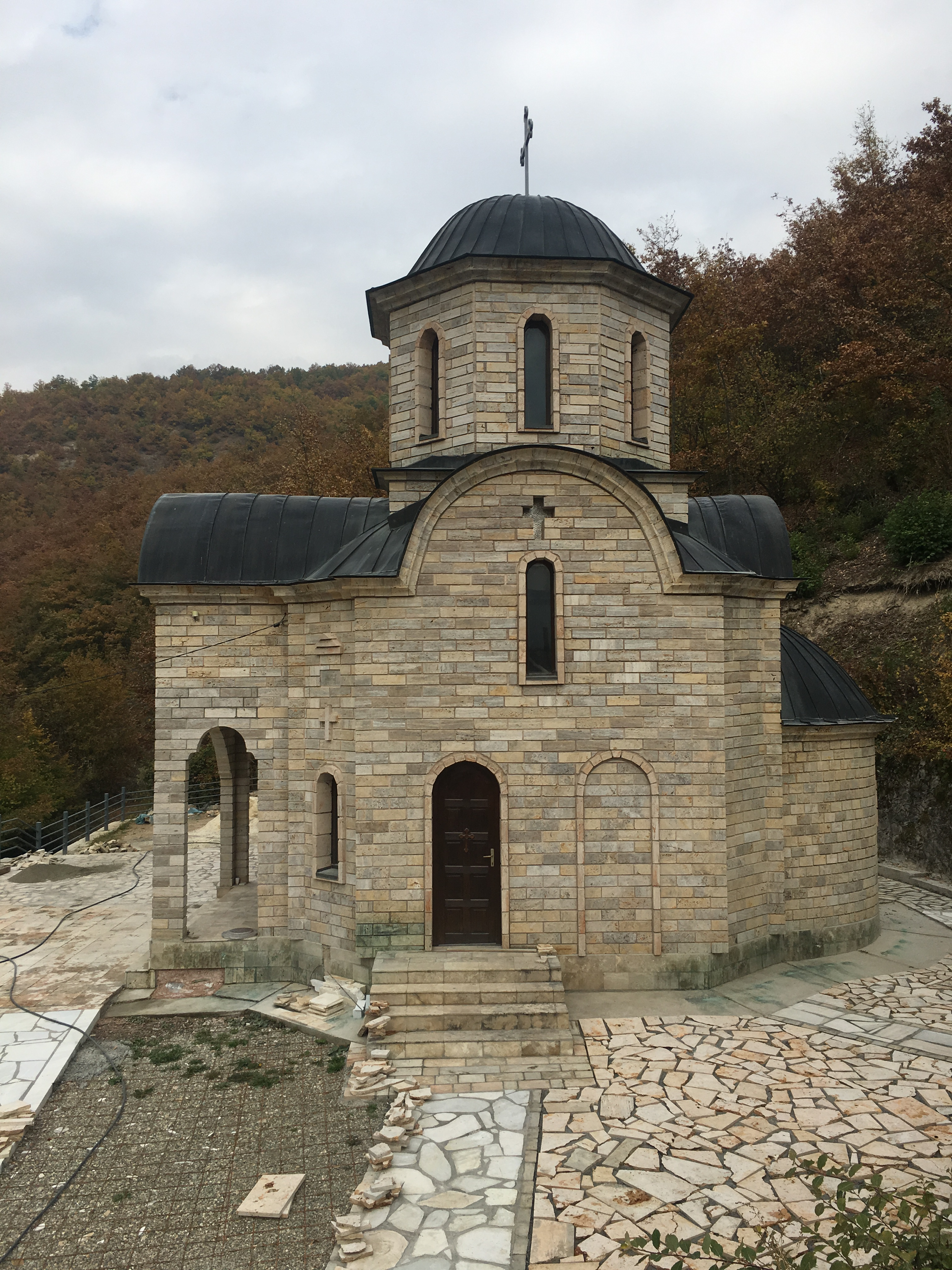 Wikiexpedition to Kopačka